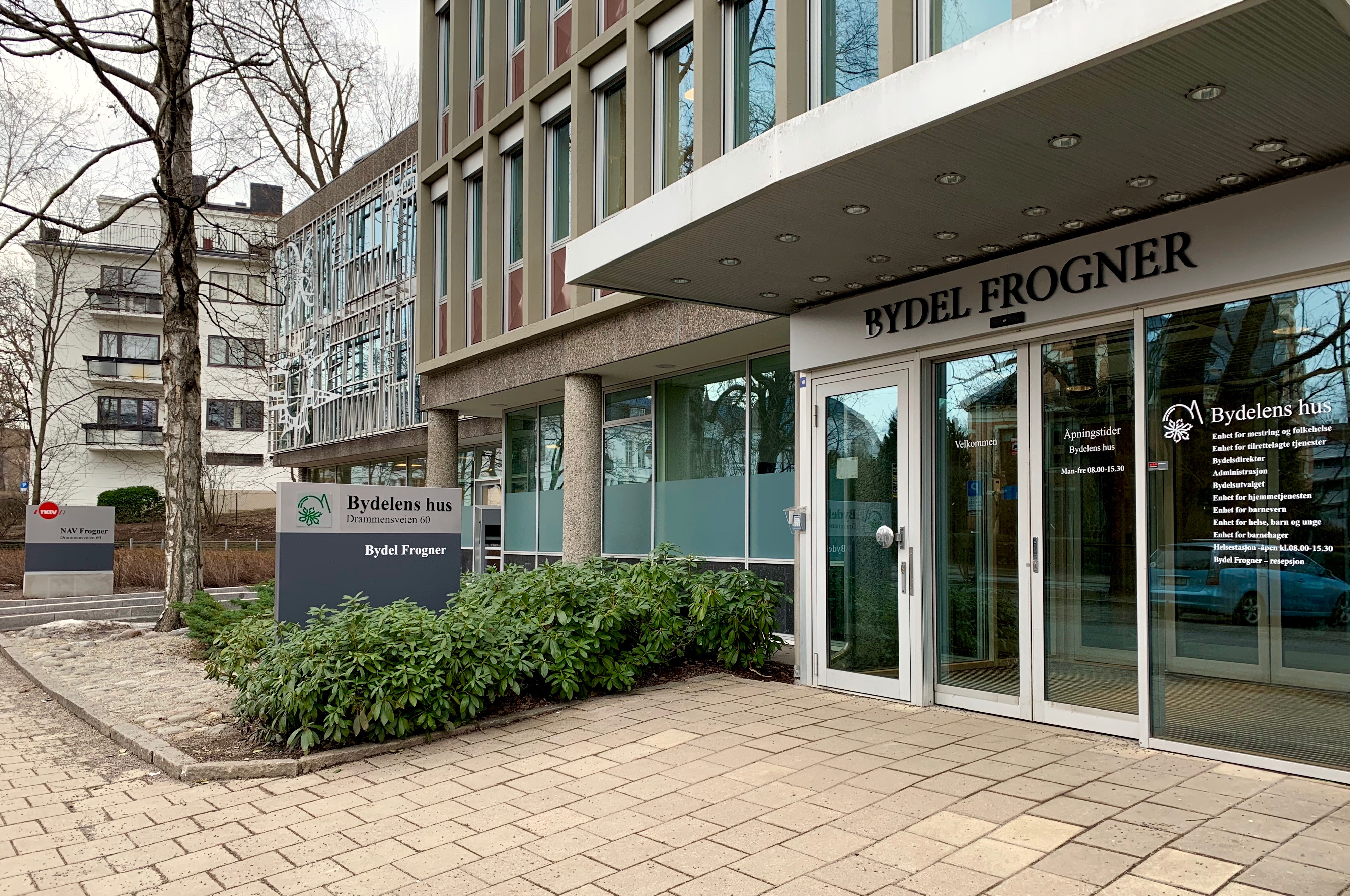 The borough building of the Oslo, Norway, borough of Frogner.